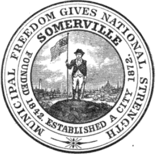 City of Somerville, Massachusetts (1901.), Municipal Manual of the City of Somerville, Massachusetts: published in the Year 1901